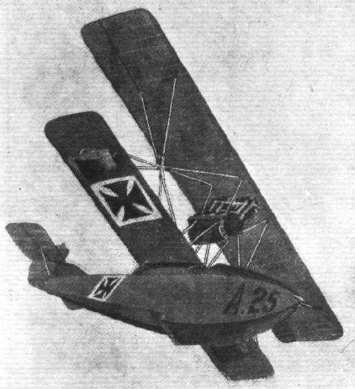 "Sketch showing the Austrian Ago Sea-Pursuit flying-boat "A-25," in-flight." (Original caption) (According to information made available after the end of the First World War, the aircraft's actual designation was Hansa-Brandenburg CC).